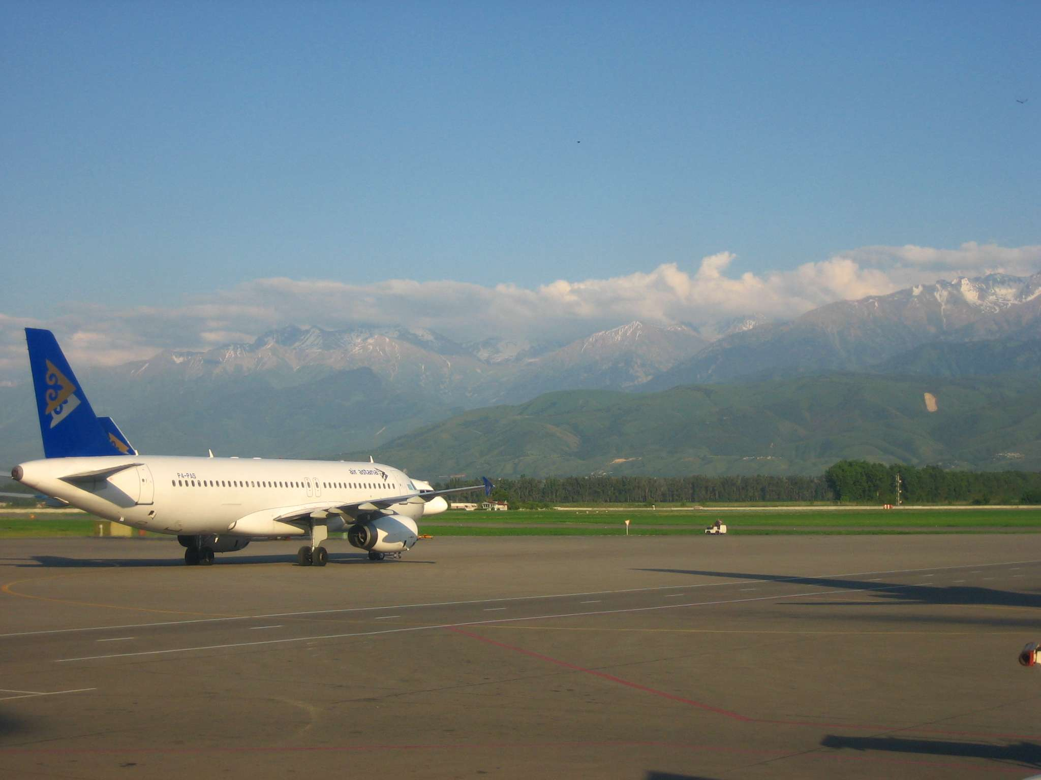 Air Astana's Airbus A-320 in Alma Ata International Airport.